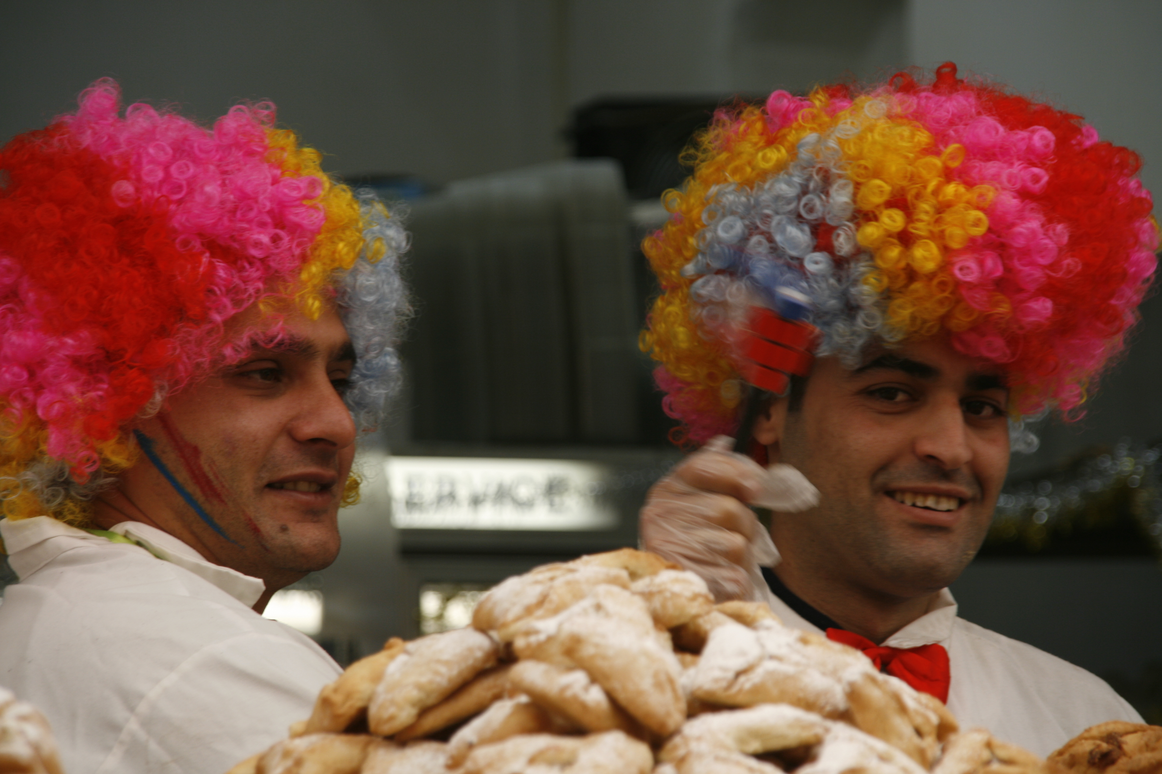 Selling Hamantash in a purimic atmosphere